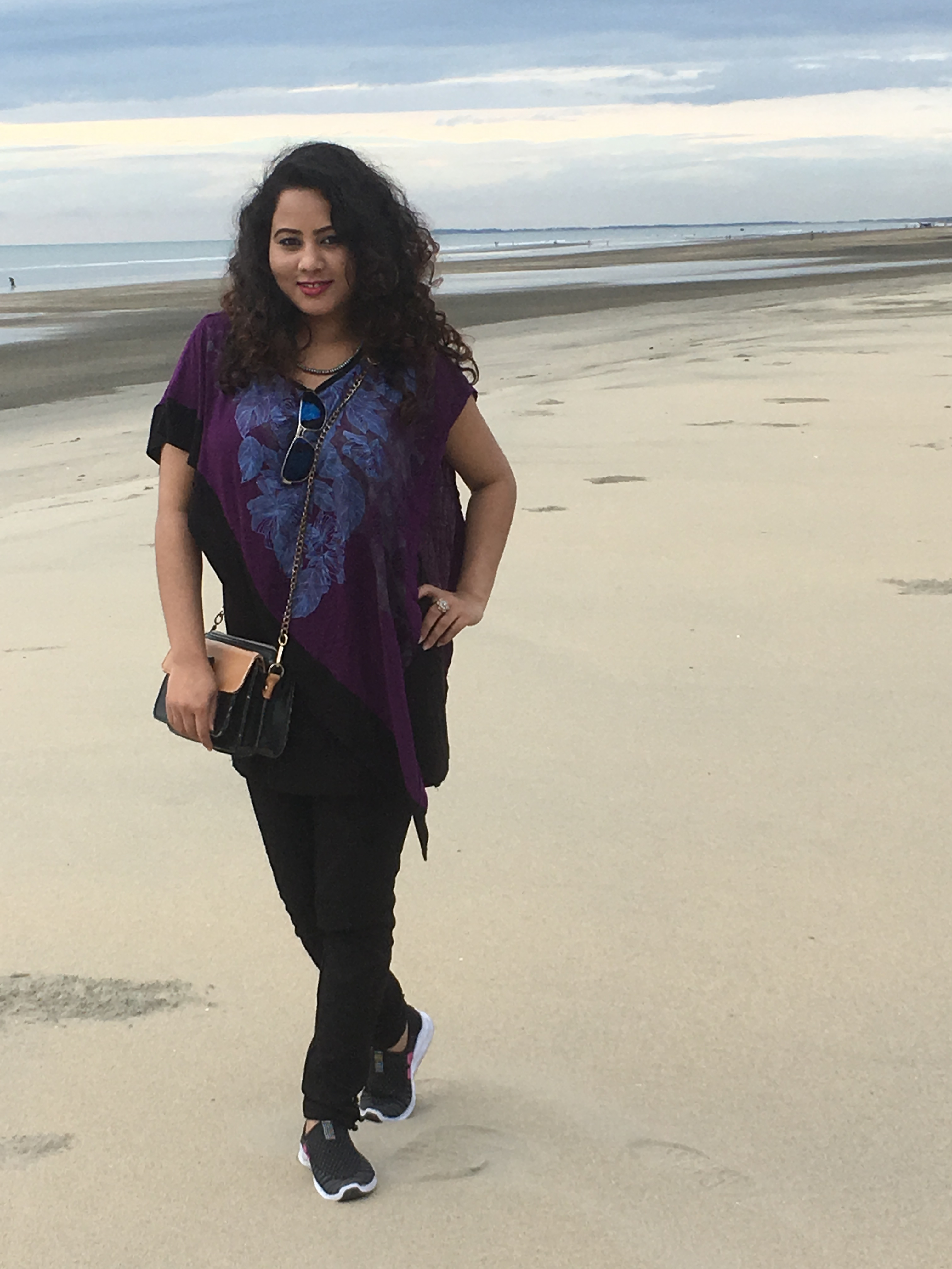 Cox's Bazaar Sea beach